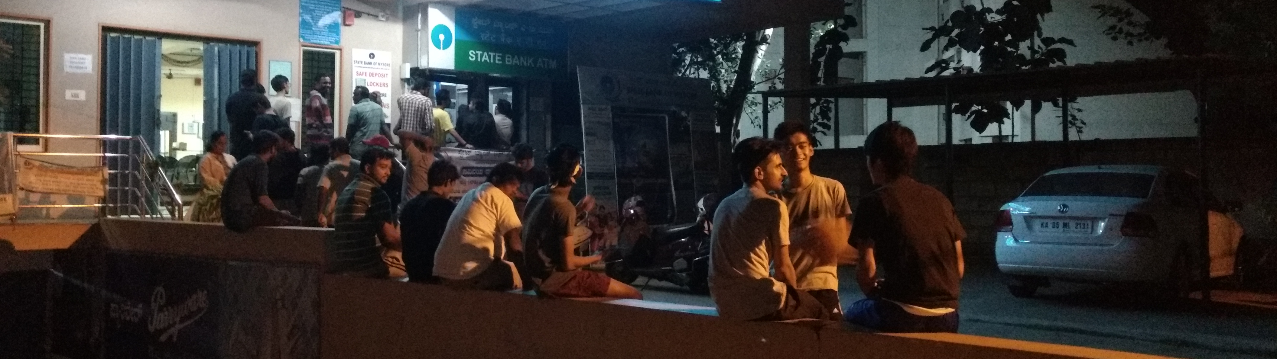 SBI was crowned at night of November 11